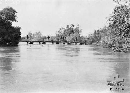 Pontoon bridge over Jordan River at Hajleh March, 1918